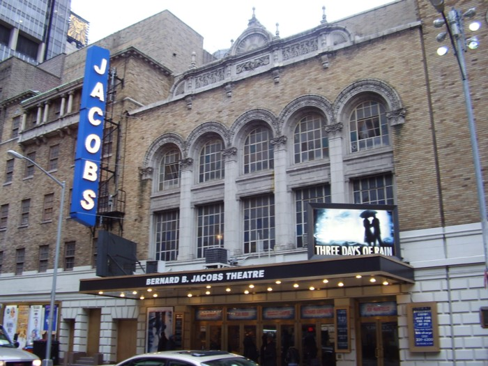 Bernard B. Jacobs Theatre, NYC 2006. Photo by Mademoiselle Sabina